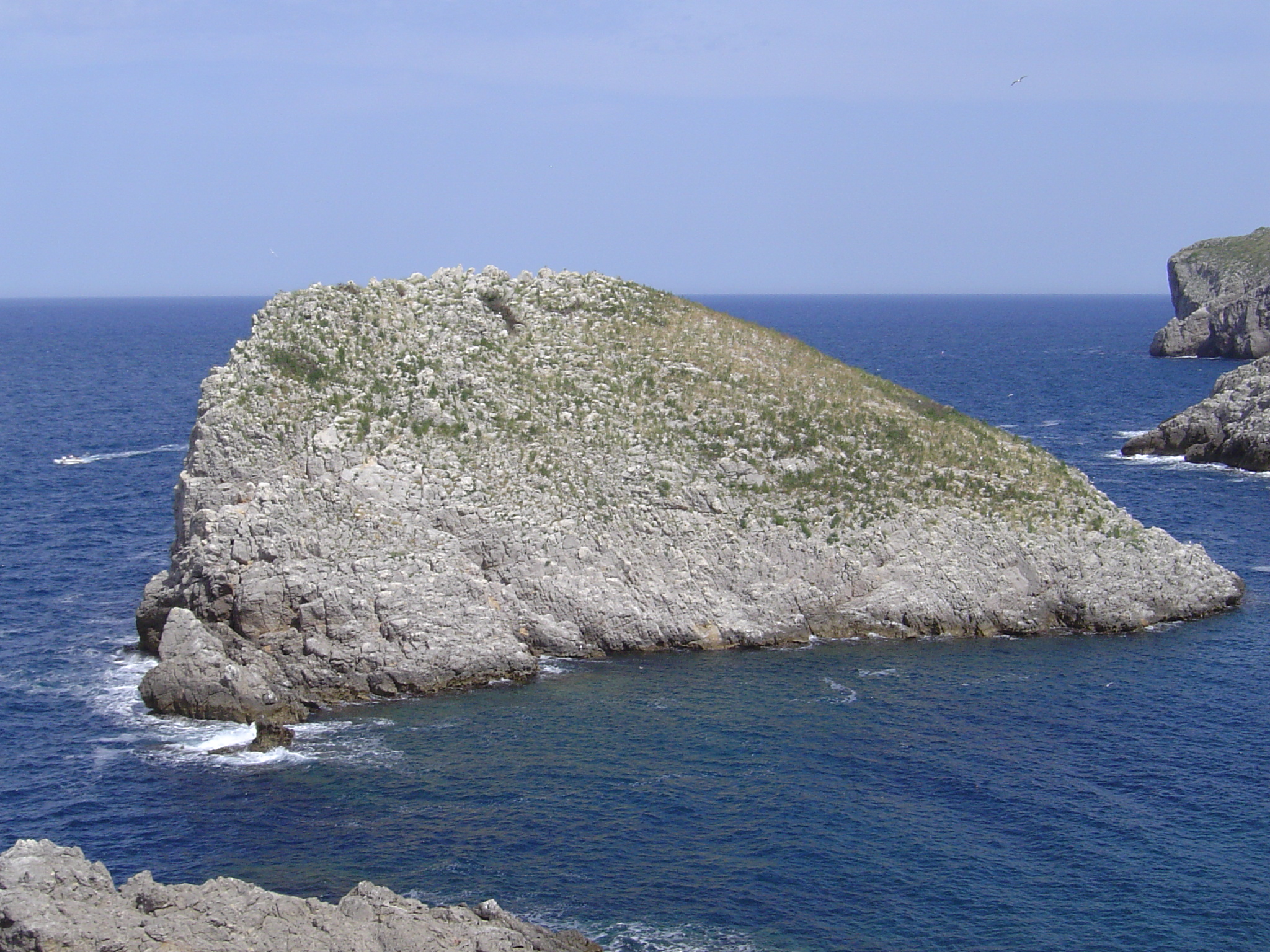 Pedrosa islet, in front of Cala Pedrosa near l'Estartit (Baix Empordà, Catalonia).